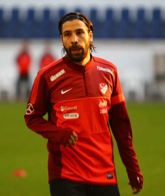 Turkish international football player Olcay Şahan